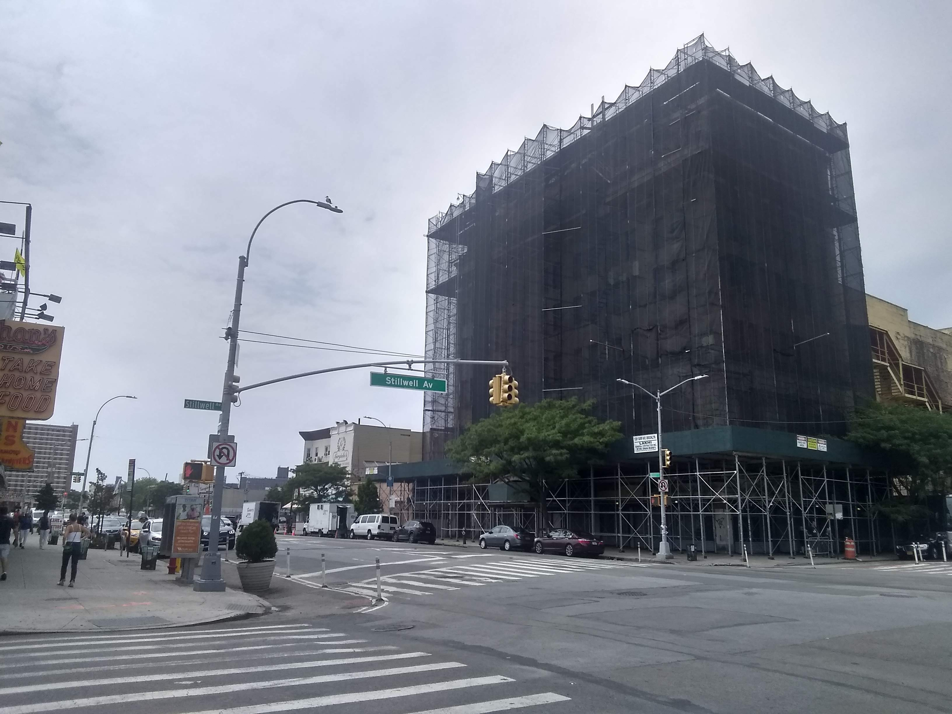 Coney Island in Brooklyn, New York, seen in July 2019. Surf Ave and Stillwell Avenue, looking northwest at the Shore Theater